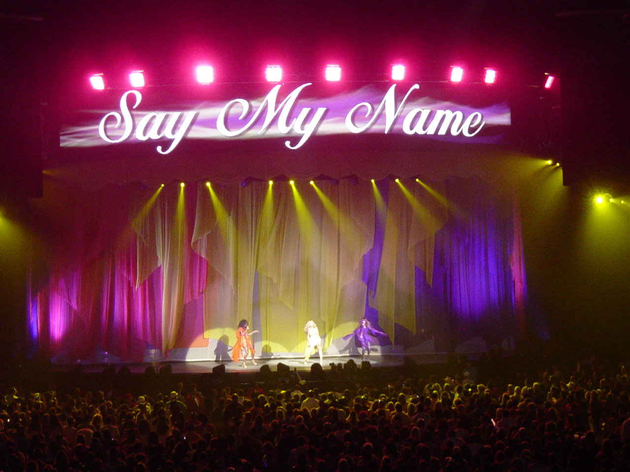 Destiny's Child performing "Say My Name" Anjana